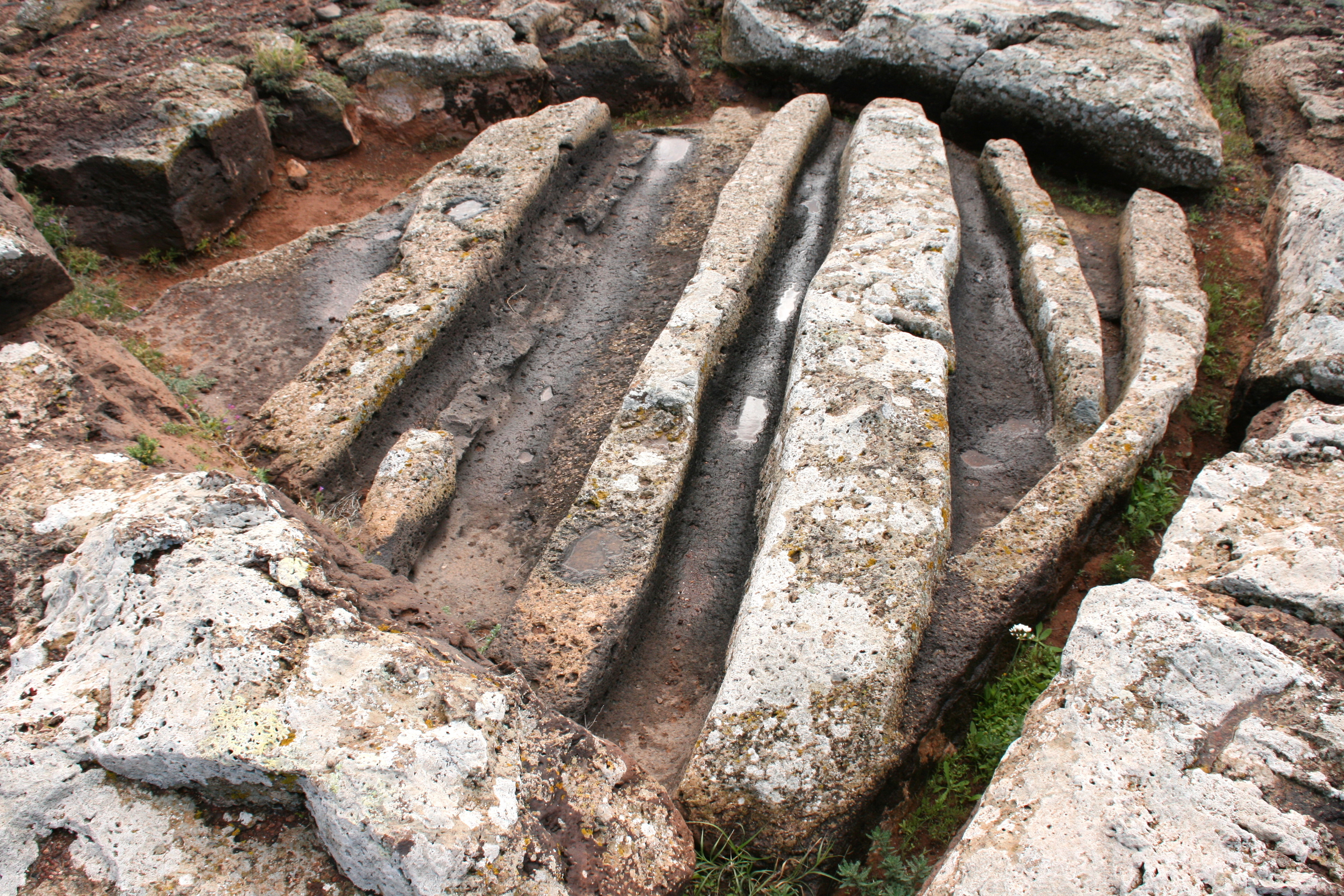 Quesera de Zonzamas at LZ-34 in Arrecife, Lanzarote, Canary Islands